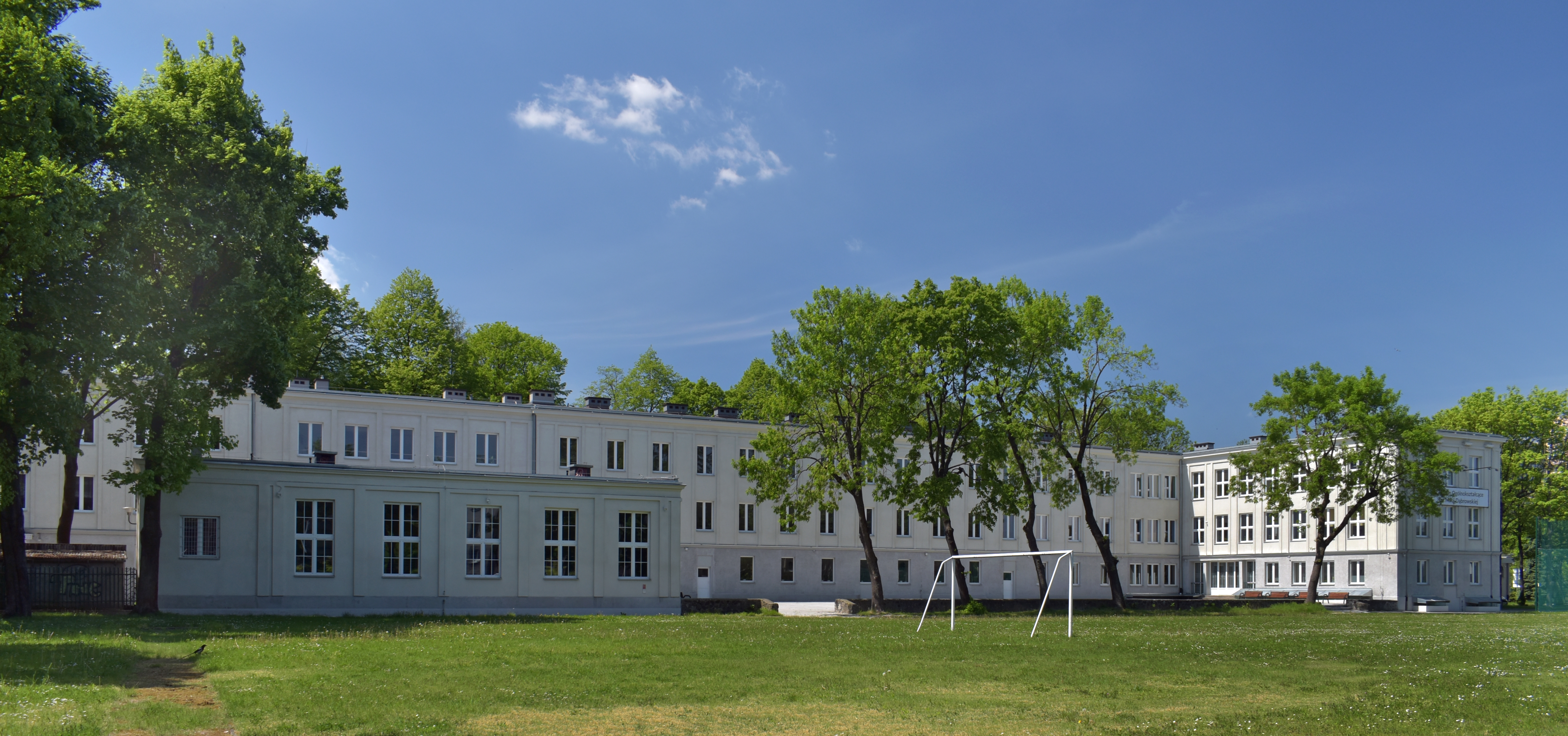 Maria Dąbrowska (XI) High School, 33 osiedle Teatralne, Nowa Huta, Kraków, Poland